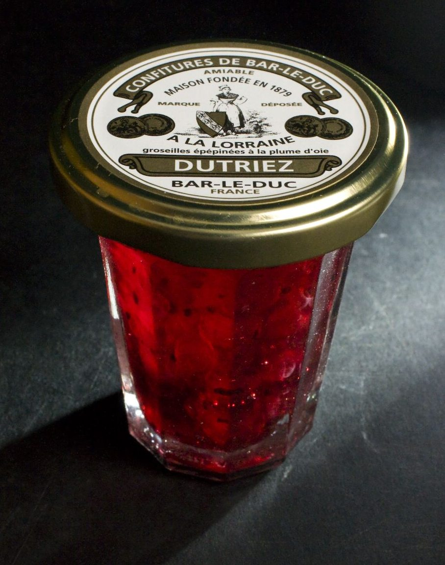 Picture of the trademark 3oz (90gr) jar of de-seeded red currant jam made by Dutriez in Bar-le-Duc. More pictures and interview with Dutriez in the article A Jam Fit For a Queen.